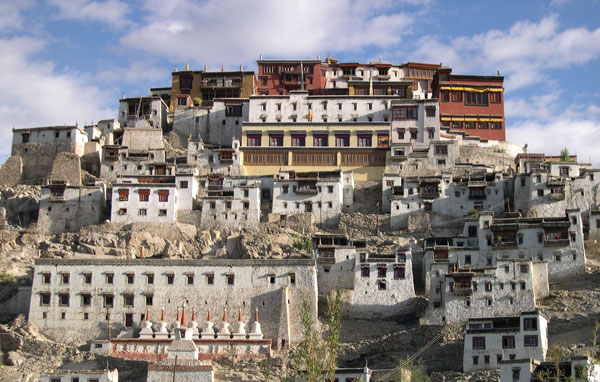 Tikse monastery, Ladakh (India)